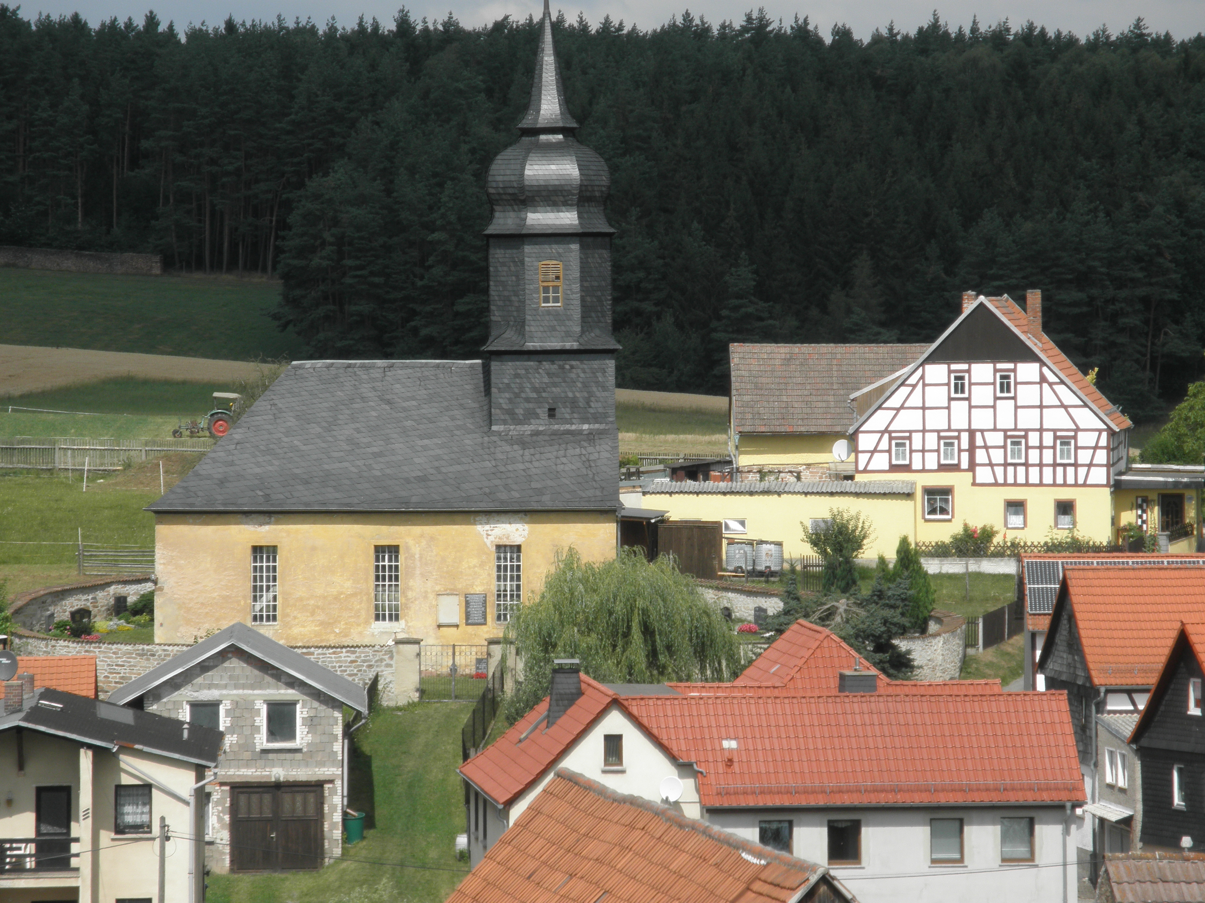 Village Rosendorf (Thüringen) in Thuringia